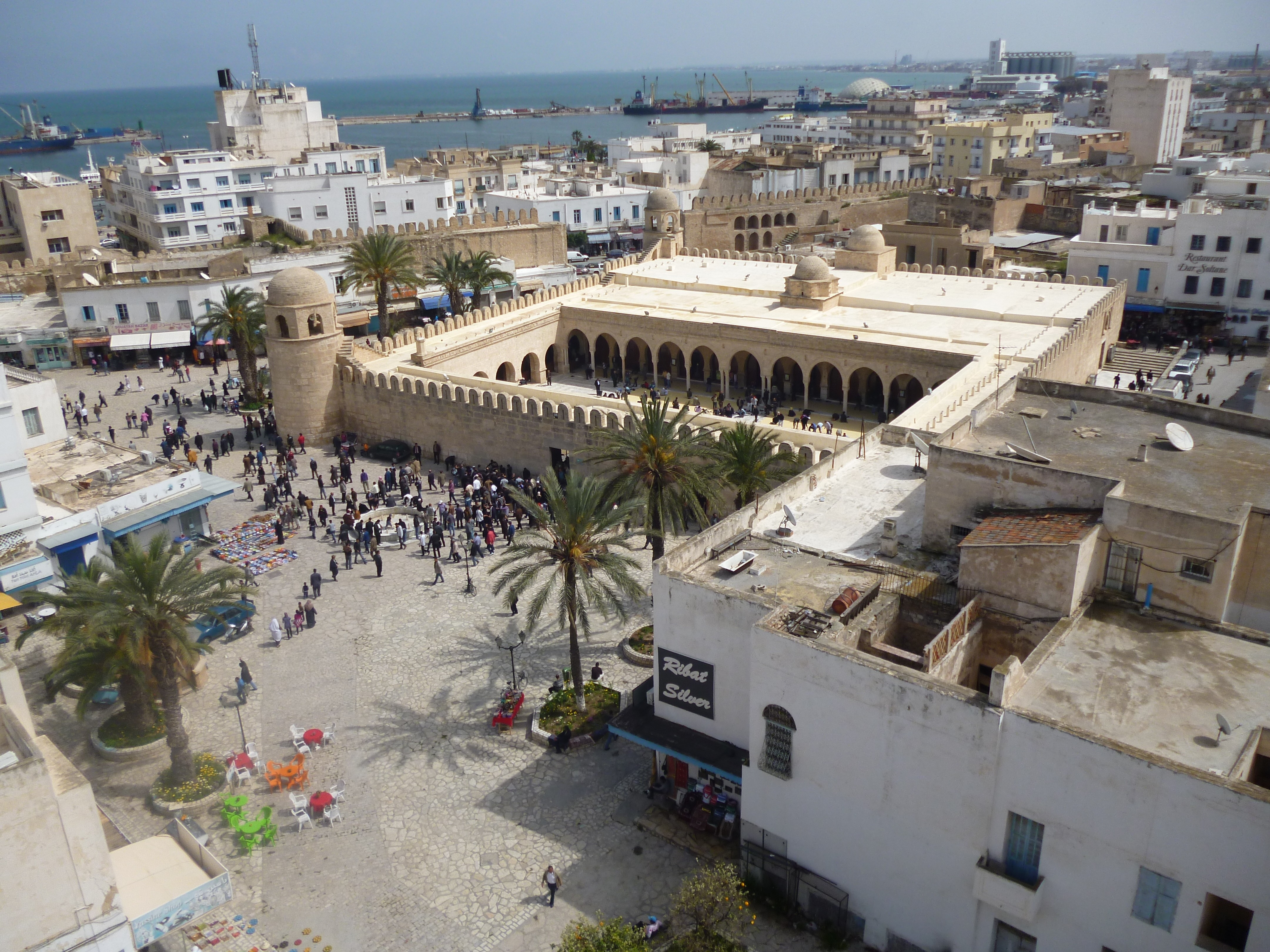 Medina of Sousse (Tunisia)